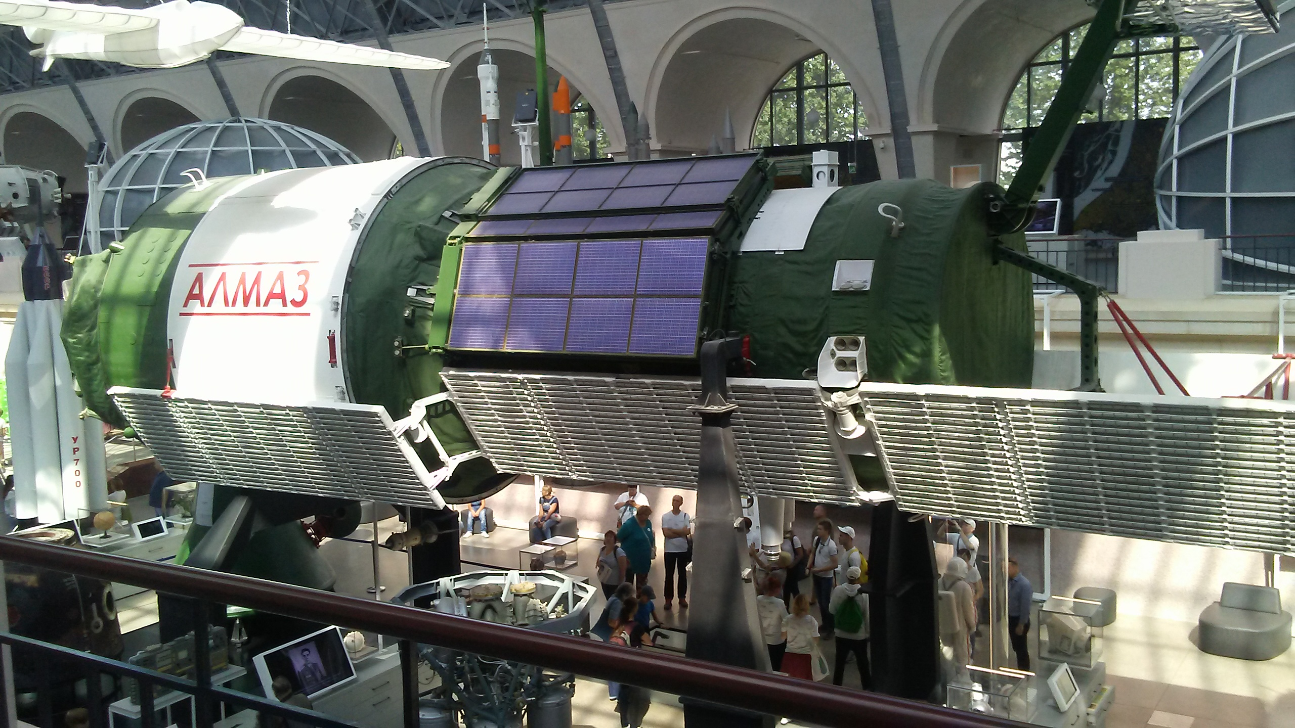 Cosmonautics and Aviation Center at VDNKH Cosmos Pavilion, Moscow